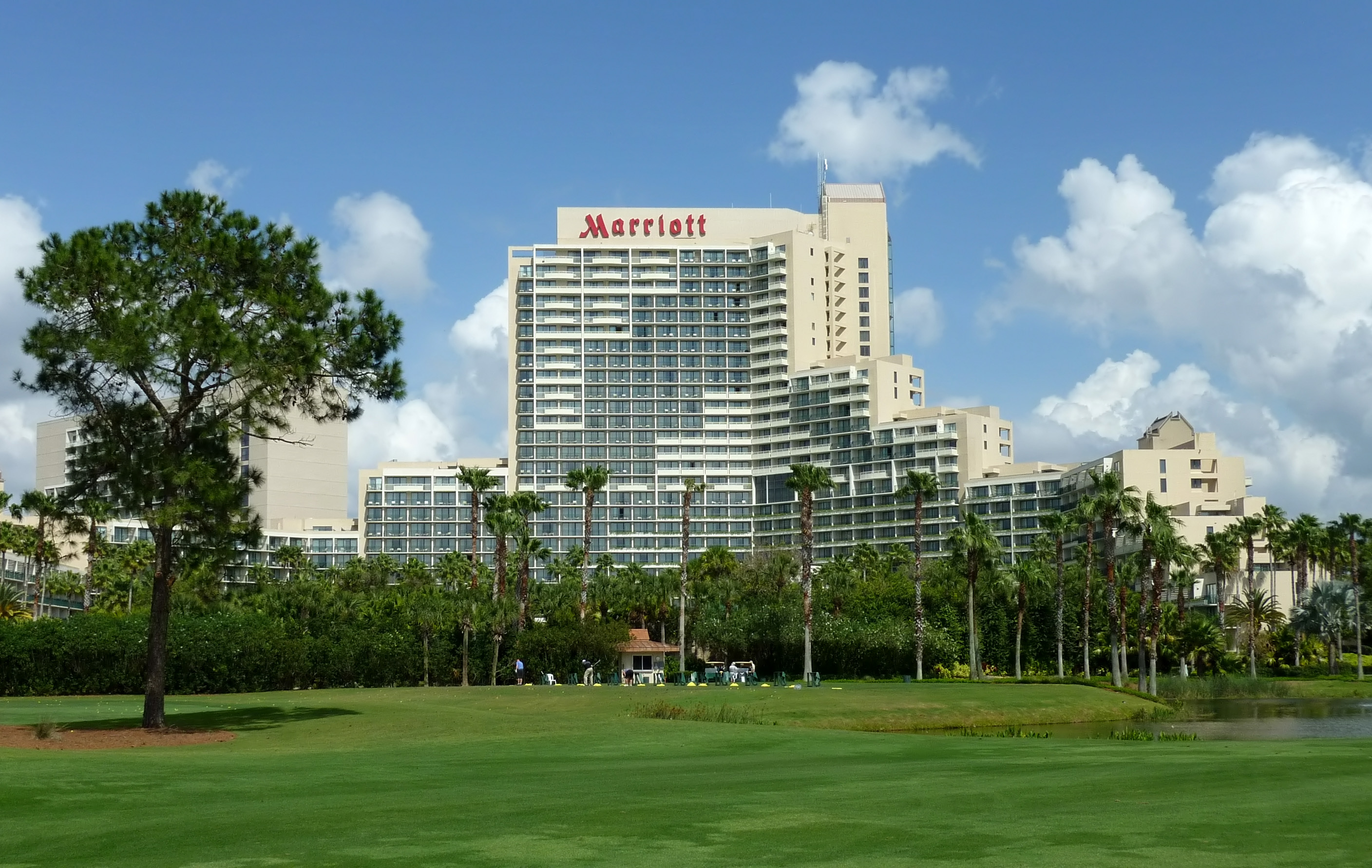 The Orlando World Center Marriott Hotel and the driving range of Hawk's Landing Golf Club, Orlando, Florida